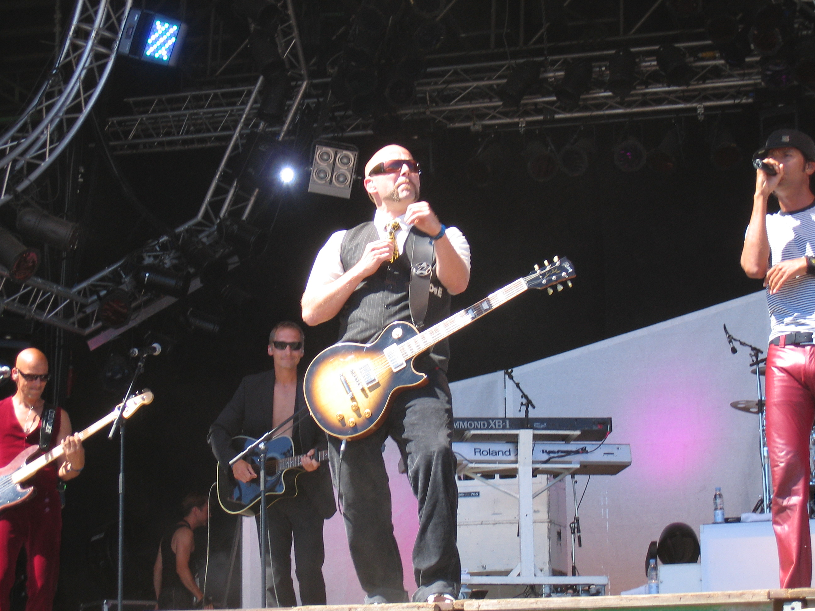 Picture of Danny Linde from the Danish band "Zididada". Taken on Langelandsfestivalen 2006, July 26th by User:Lhademmor.